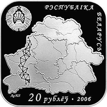 The Struve Geodetic arc. Silver commemorative coins, denomination: 20 rubles, Belarus